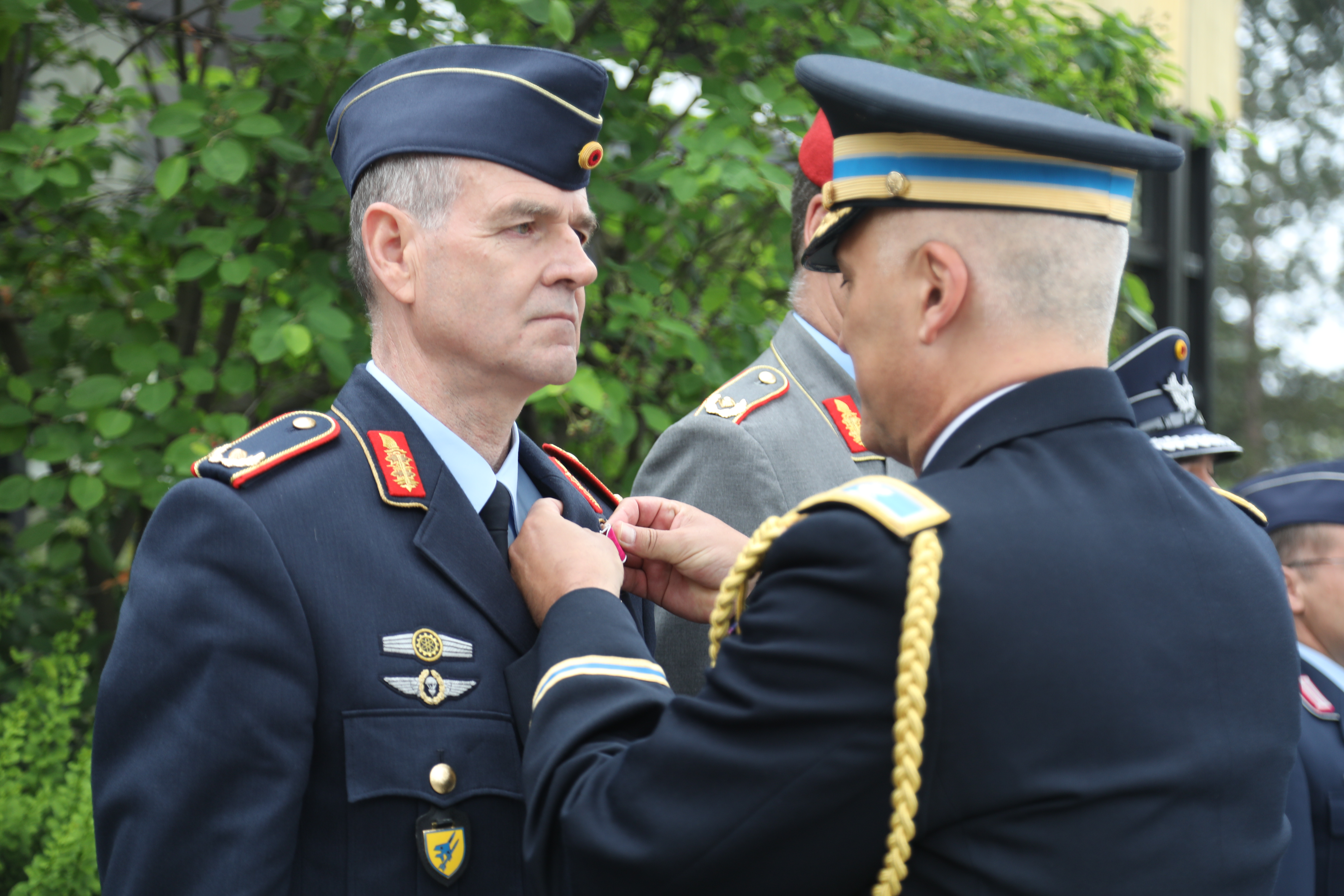 Brigadier General Michael Bartscher of the German Air Force, receives the U.S. Legion of Merit (Degree of Officer) during Armed Forces Day 2018.